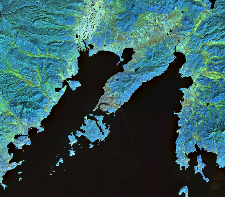 Bay of Peter the Great with the Muravyov-Amurskiy Peninsula in the center and Russkii Island to the southwest of it. The city of Vladivostok is located on both the southwest of the peninsula and the north of Russkii Island. In the north-center the delta of the river Razdolnaya (Chinese: Suifen He) Screenshot from Nasa World Wind: NLT Landsat7 satellite (Pseudo Color)